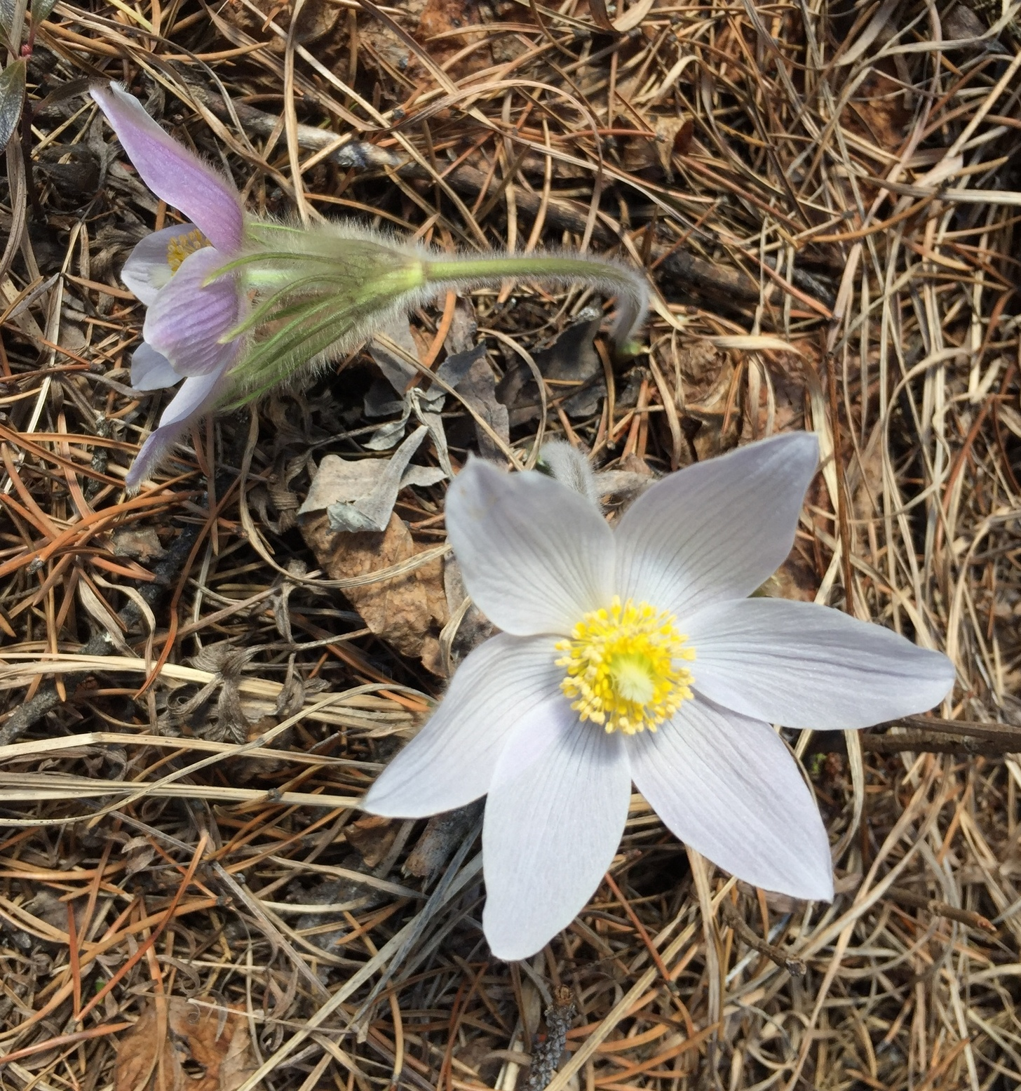 Photo of Pulsatilla nuttalliana uploaded from iNaturalist.